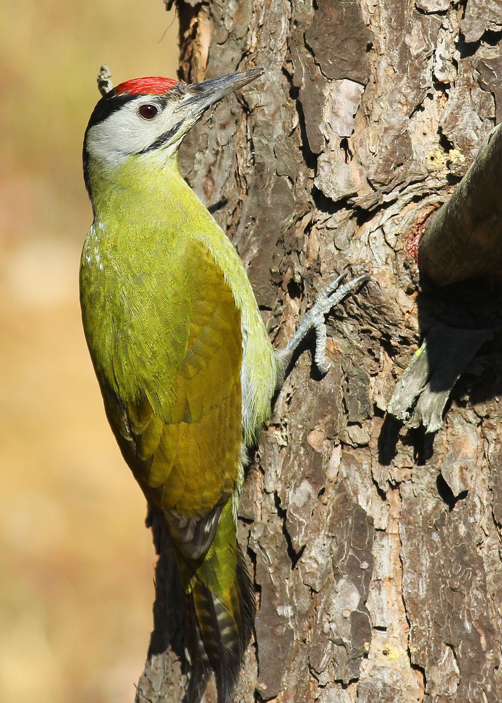 A beautiful woodpecker species!